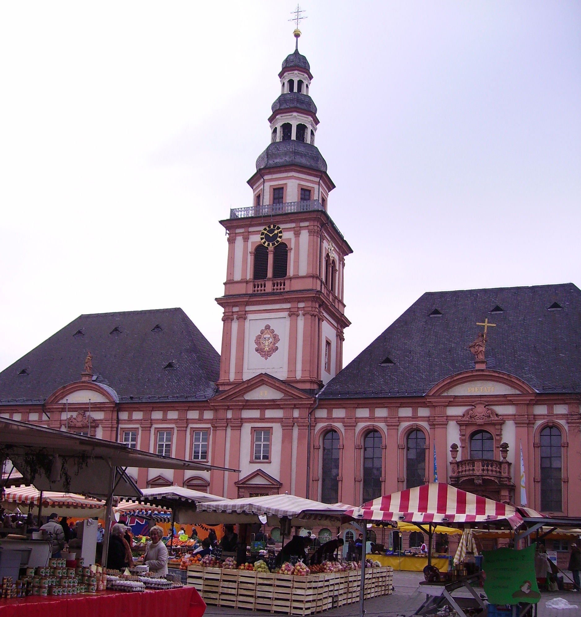 market square of Mannheim, Germany